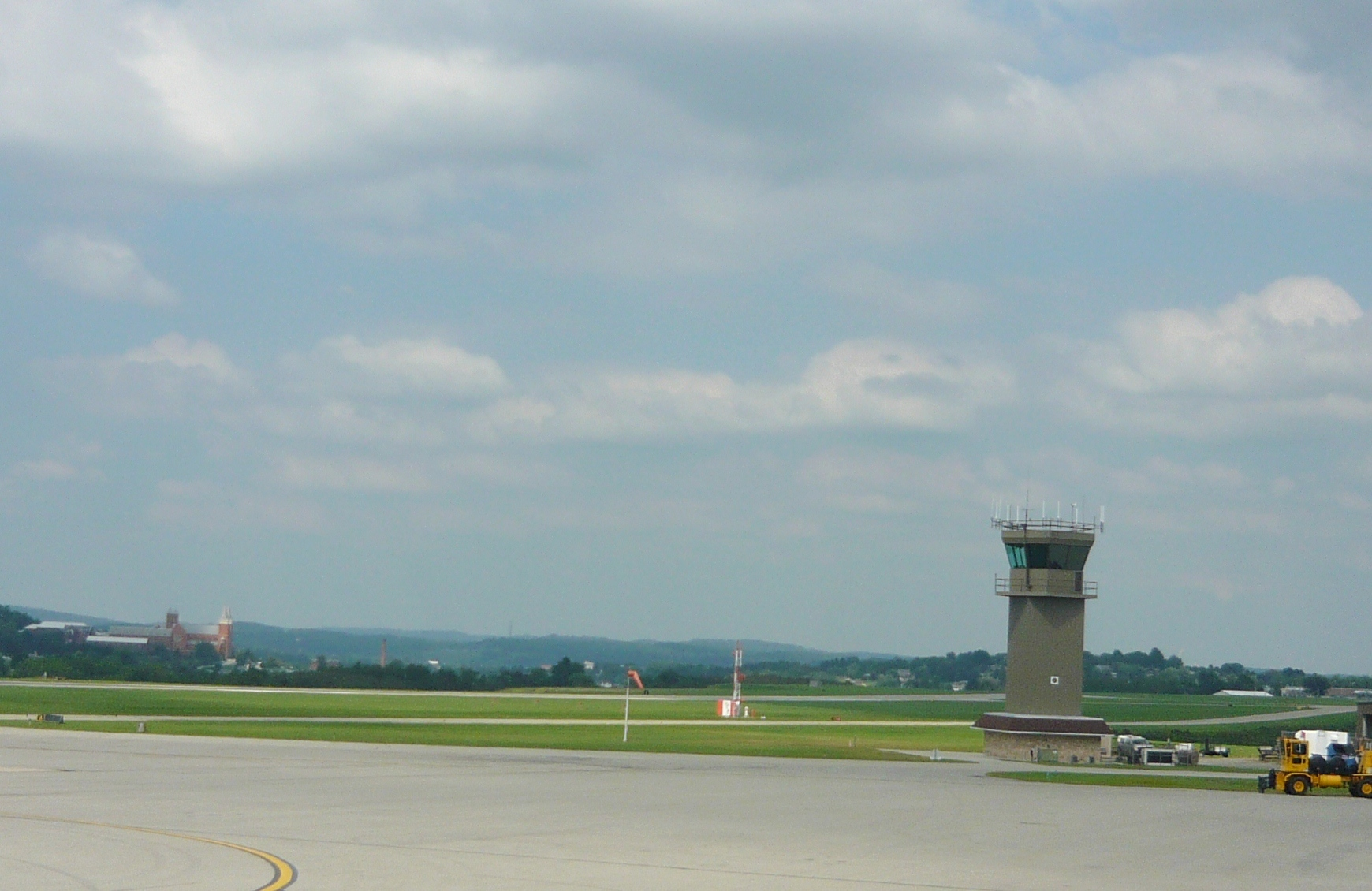 Control tower at Latrobe Airport (Arnold Palmer Regional Airport), 148 Aviation Lane, Unity Township, Westmoreland County, Pennsylvania. IATA code is LBE. Saint Vincent College is in the background.